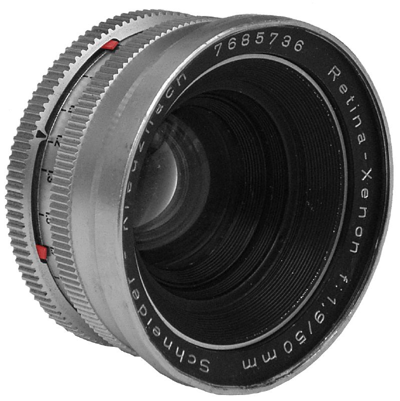 This is a Retina-Xenon photographic lens produced by Schneider-Kreuznach. The focal length is 50 mm and the maximum aperture 1:1.9.